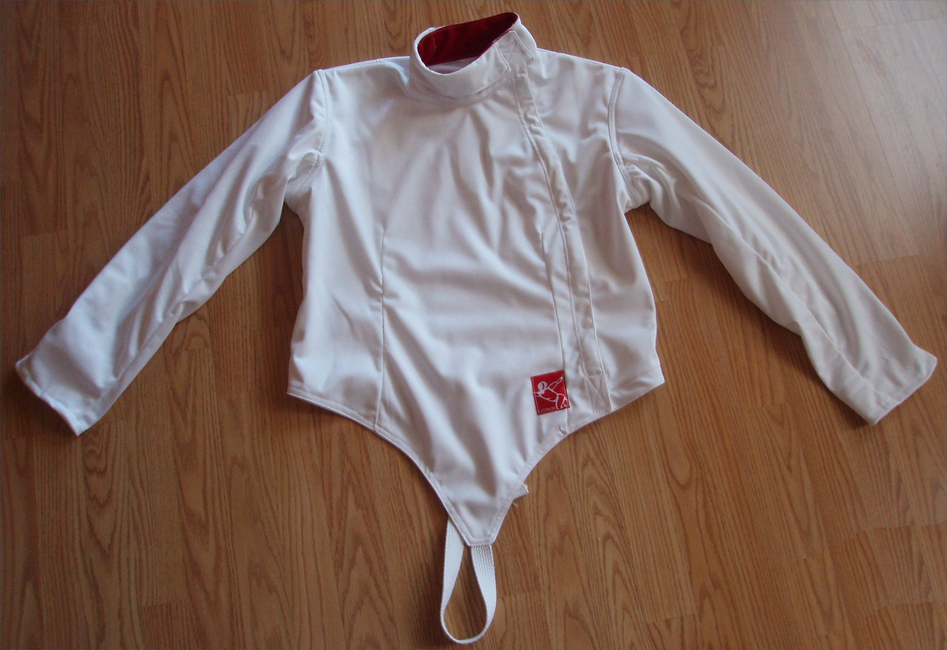 Fencing uniform jacket. (Women's)